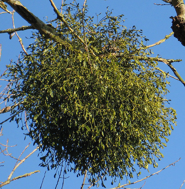 European mistletoe - Viscum album Everything I ever wanted to know about mistletoe - and a lot that I didn't